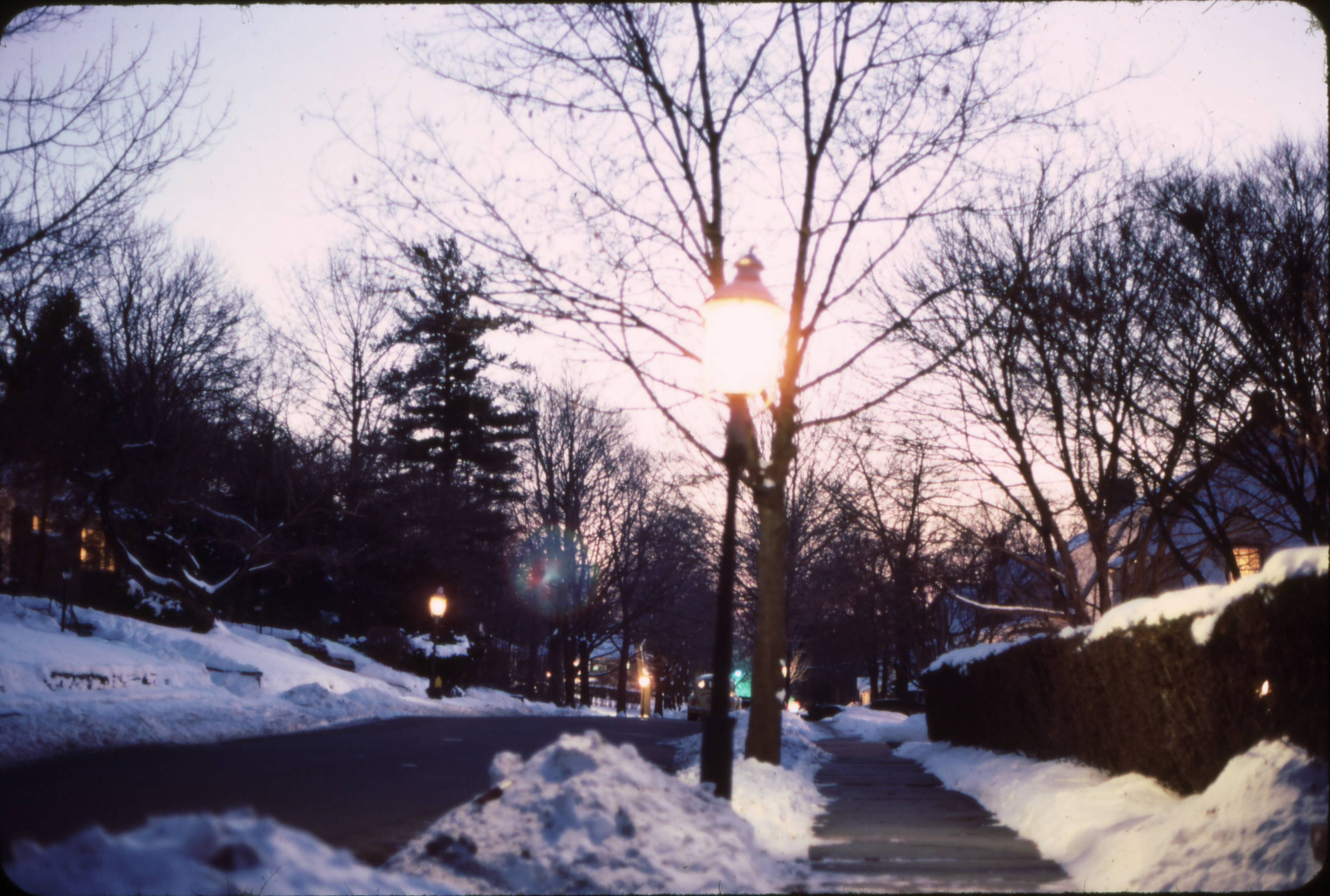 South Orange's gaslights on Vose Avenue Category:Images of New Jersey